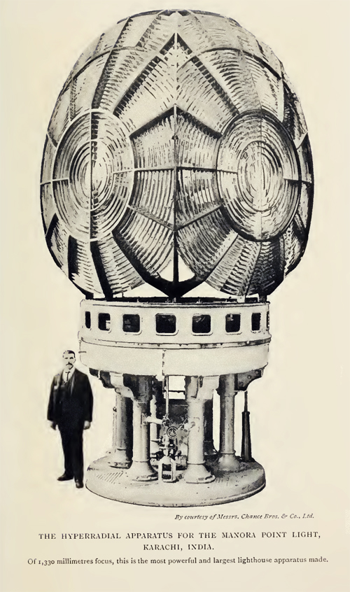 Hyperradial Apparatus for the Manora Point Light, Karachi, Pakistan